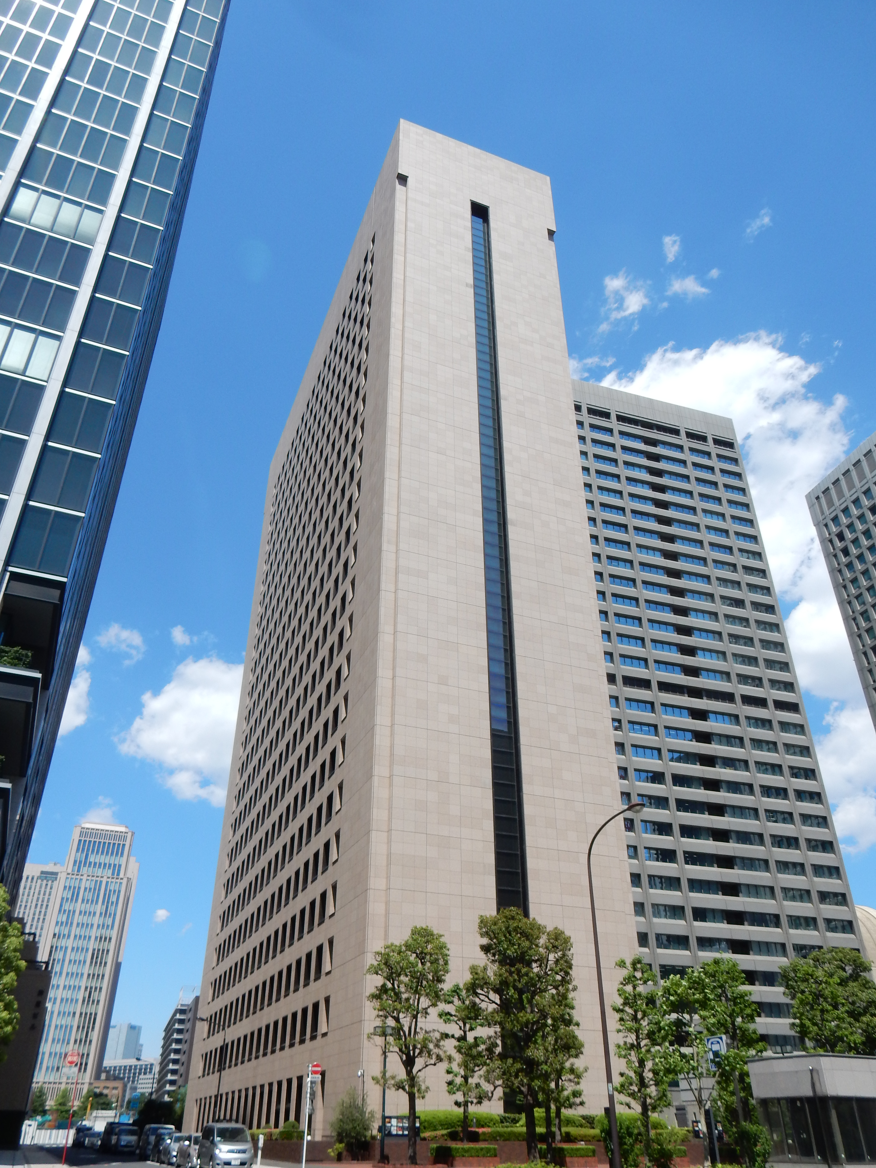 Hibiya Central Building (日比谷セントラルビル), located at 2-2-3 Nishi-Shinbashi, Minato, Tokyo, Japan